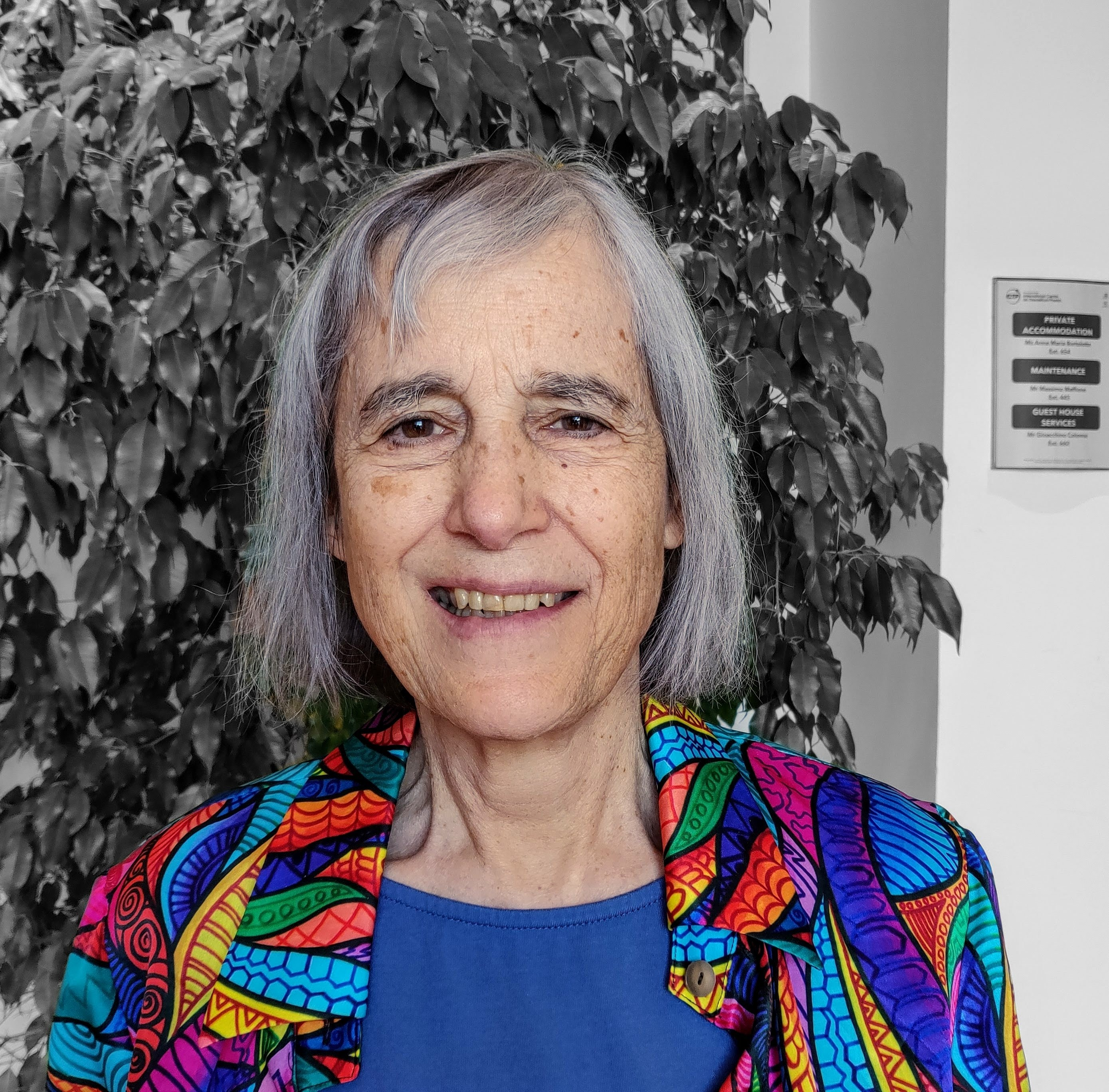 Jean Ellen Taylor at the Gender gap in science conference in Trieste. 7 November 2019.